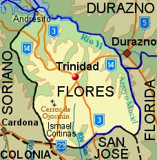 Map of Flores Department, Uruguay.